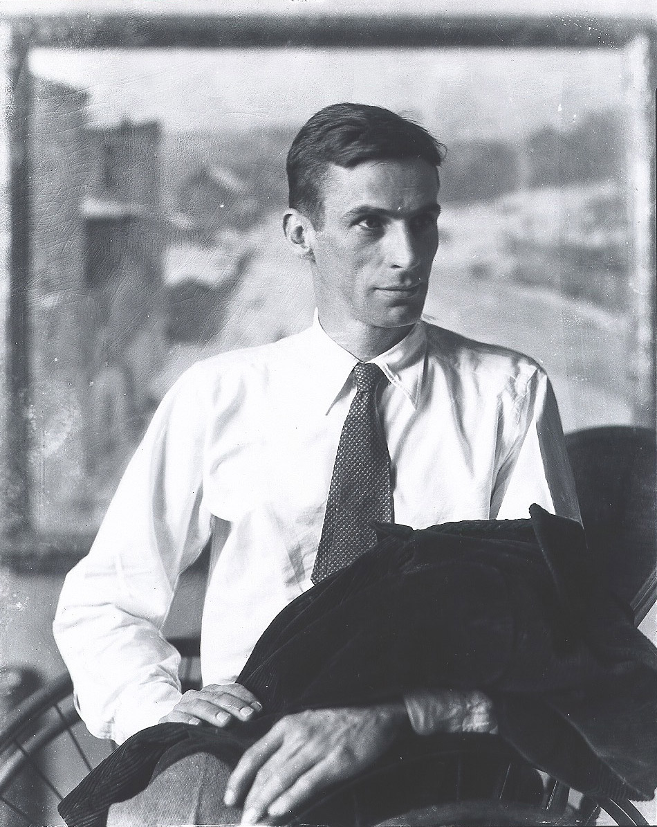 "John Folinsbee in front of Mending the Canal Bank," circa 1923, Peter A. Juley Collection, Image #J0001591. Cropped. The Peter A. Juley & Son Collection of photographs was donated to the Smithsonian American Art Museum.